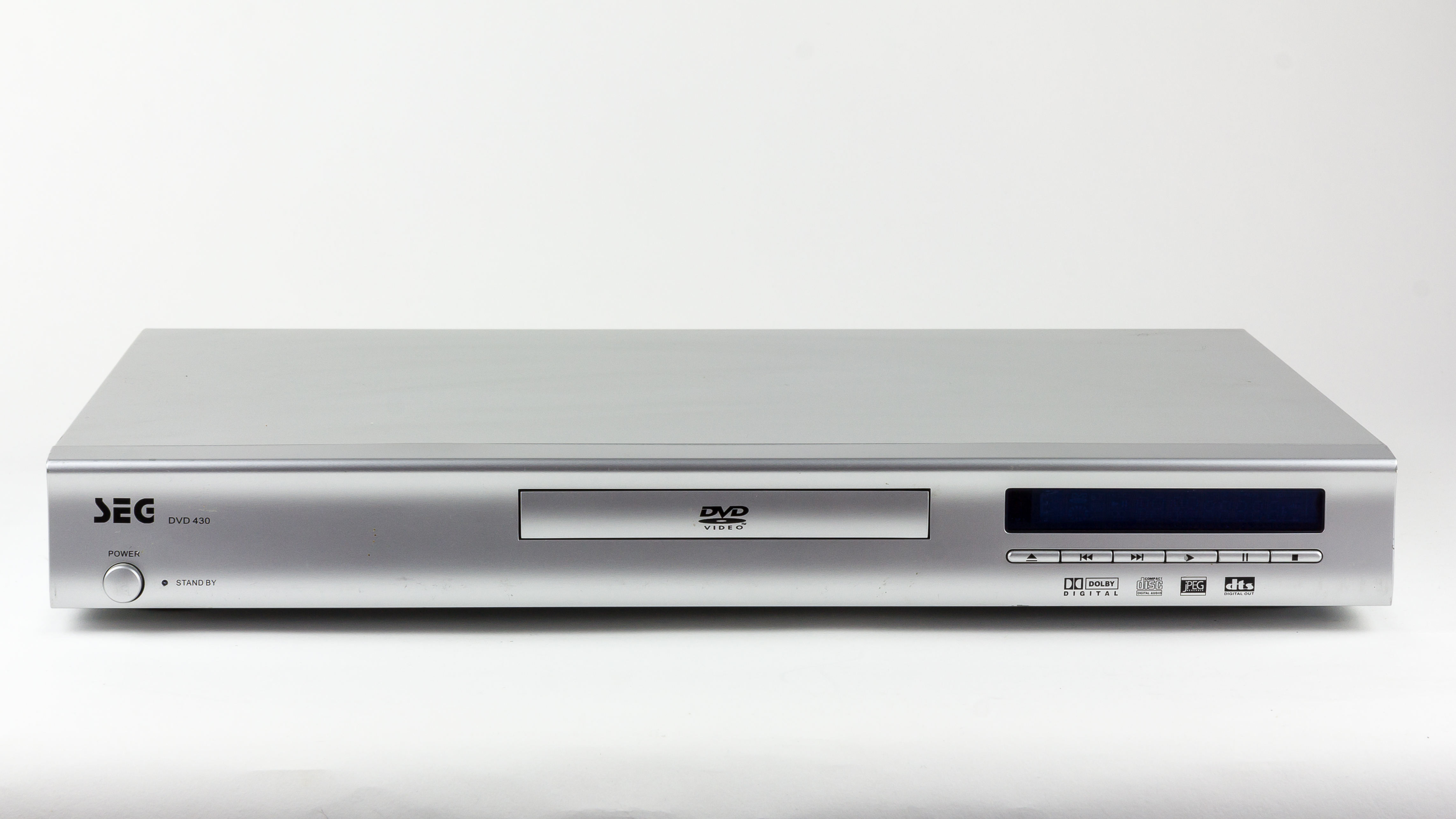 DVD player SEG DVD 430. "SEG" is a trademark of the Germany company Jaxmotec GmbH, Saarlouis